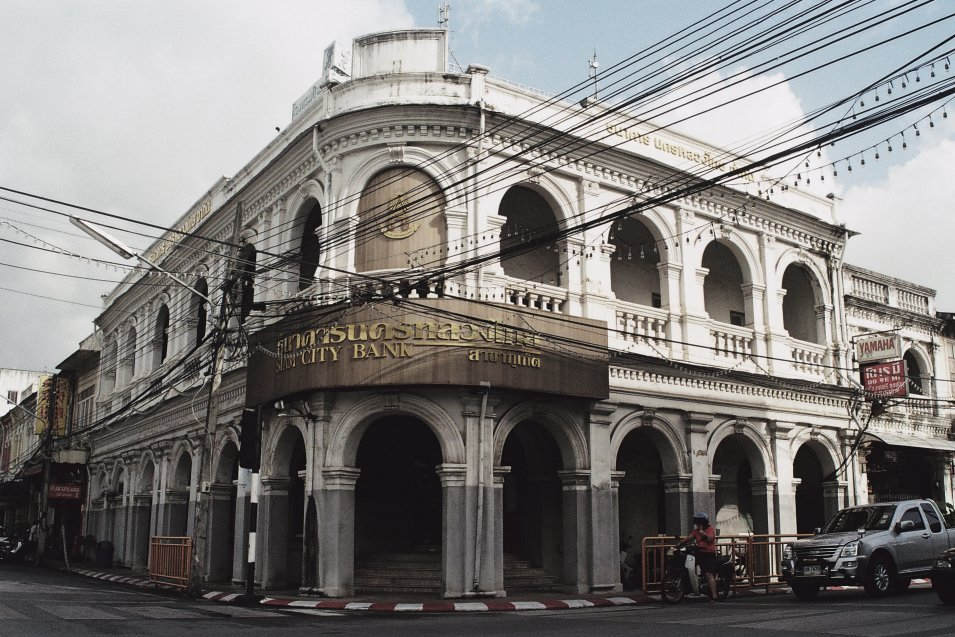 The building of the Siam City Bank in Phuket City is one of the oldest buildings in the town. It's a fine example of the sino-colonial architectural style of the old town parts and shows the ethnographic history of Phuket.